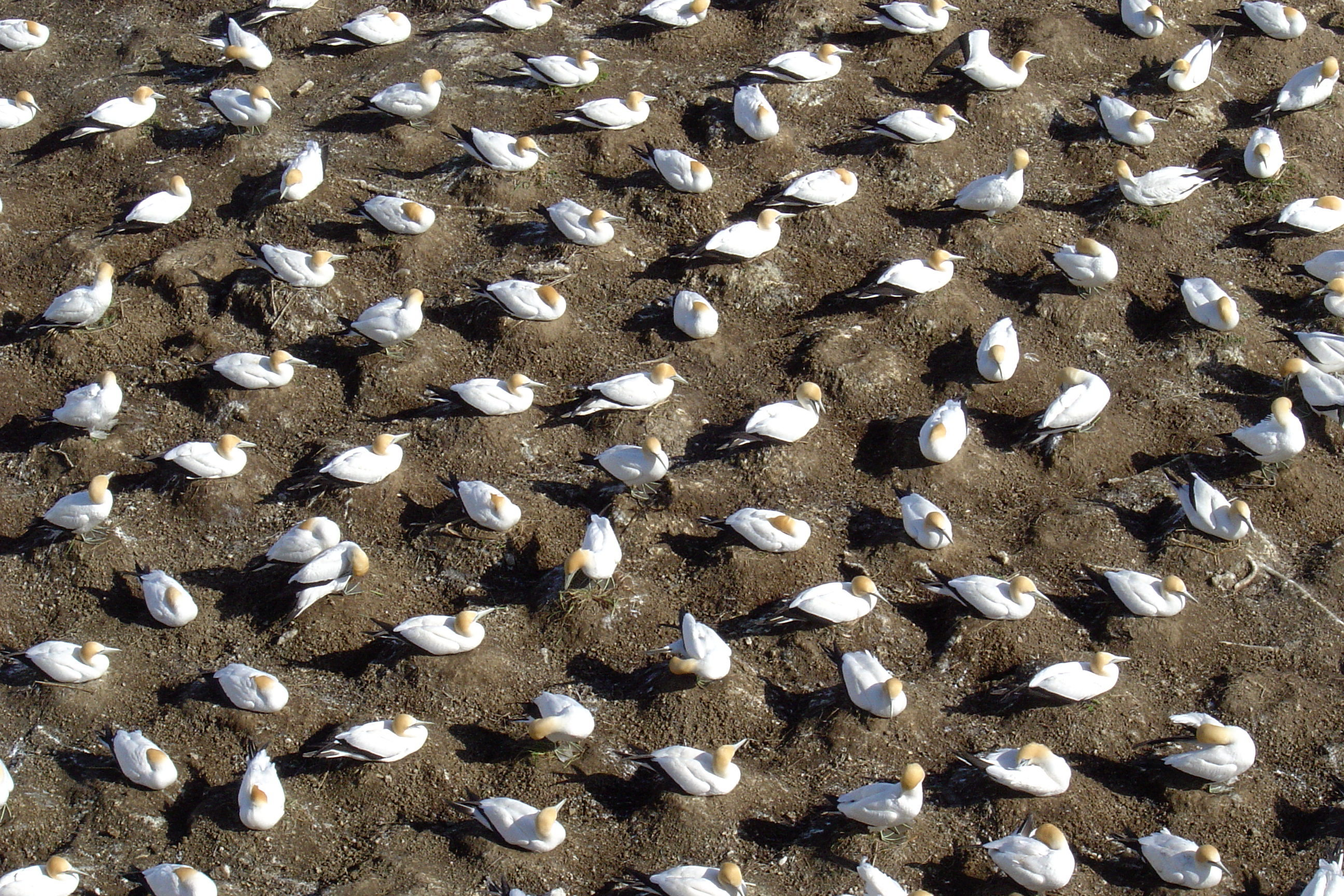 Nesting Gannets ( Morus serrator species) at the mainland Muriwai colony in New Zealand